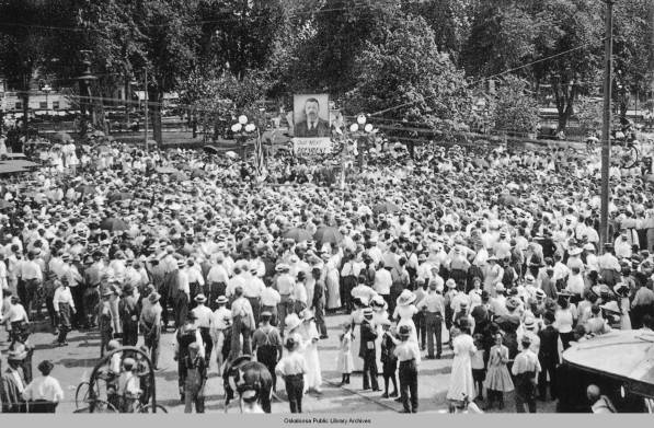 Former President Theodore Roosevelt gives a 1912 campaign speech in the city square of Oskaloosa, Iowa.